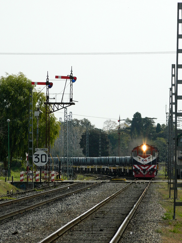 A Nuevo Central Argentino freight locomotive.